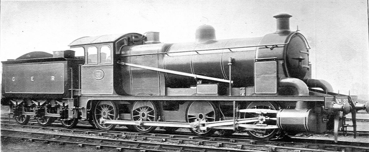 The Great Eastern "Decapod", rebuilt